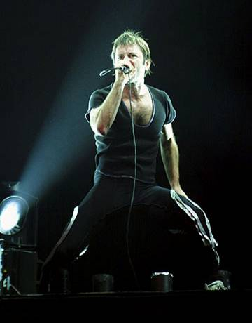 Bruce Dickinson, pictured on 21.09.1999 at a concert with Iron Maiden in Stuttgart, Hanns-Martin-Schleyer-Halle